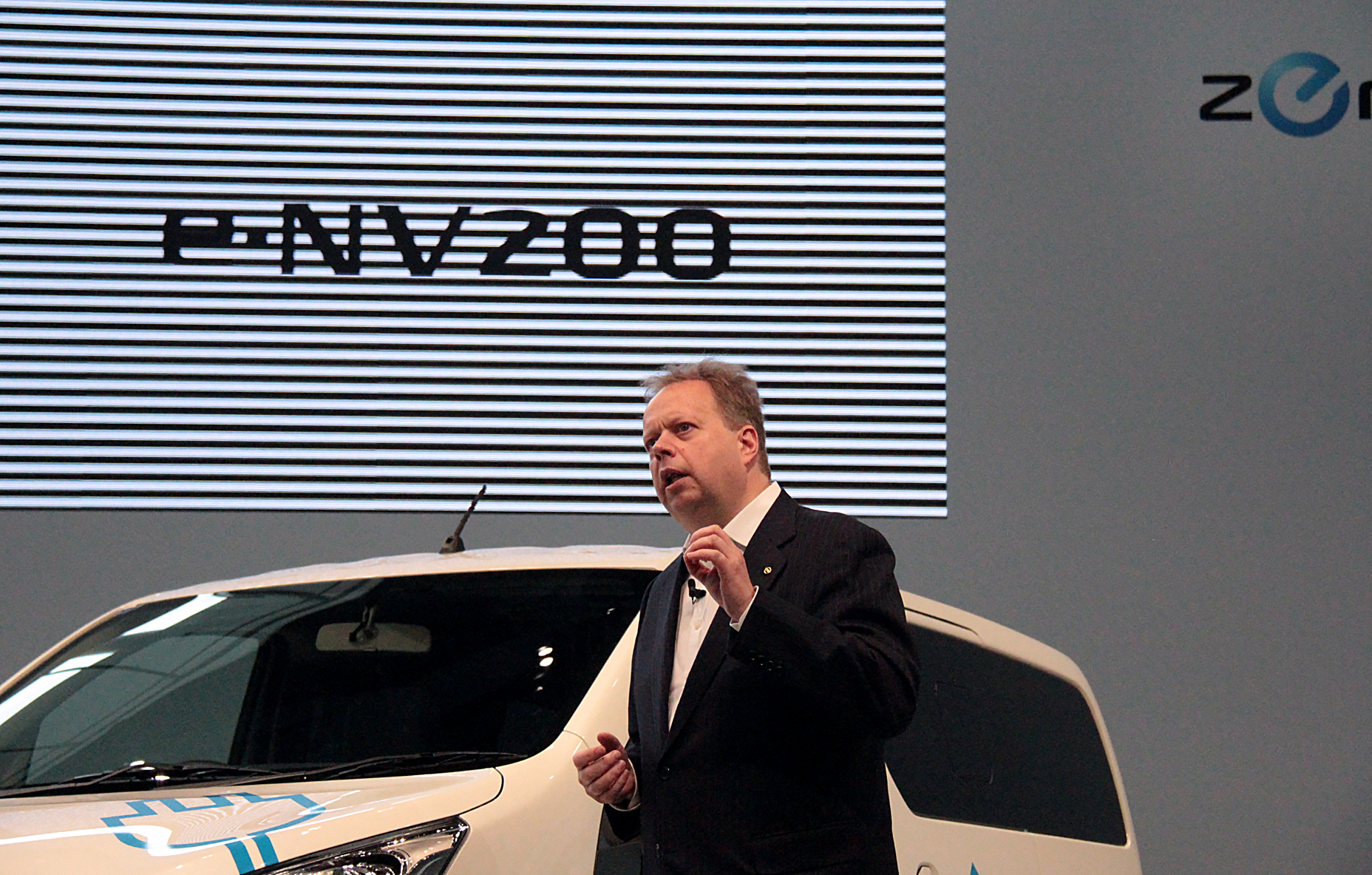 Andy Palmer, Chief Planning Officer and Executive Vice President of Nissan at launch of e-NV200 in Yokohama, 9 June 2014 - Picture by Bertel Schmitt